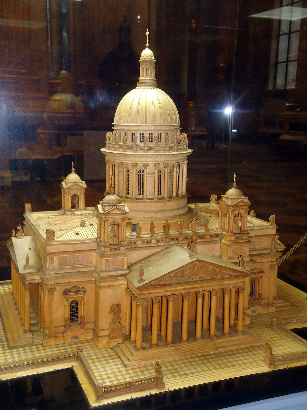 Maket of Saint Isaac Cathedral